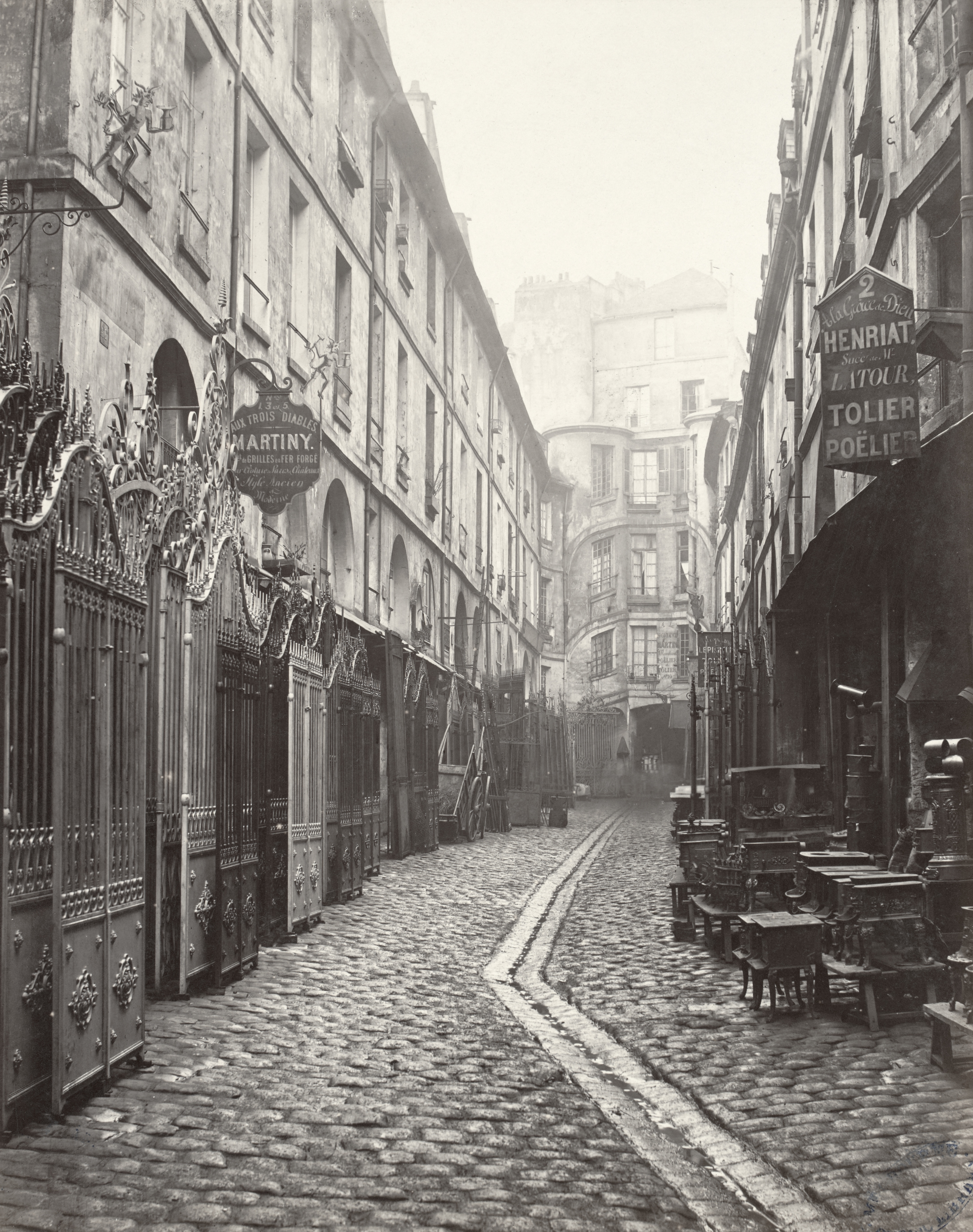 Looking along cobbled street with guttering running in a zig zag down centre of road, building on left with decorative iron railing gates, sign on wall reading No. 1, 3 et 5 / A Trois Diables / Martiny .... On right side furnishings and small machinery stacked in front of door, sign above reads: 2 A la Grace de Dieu / Henriat /succ M / Latour / Tolier / Poëlier.